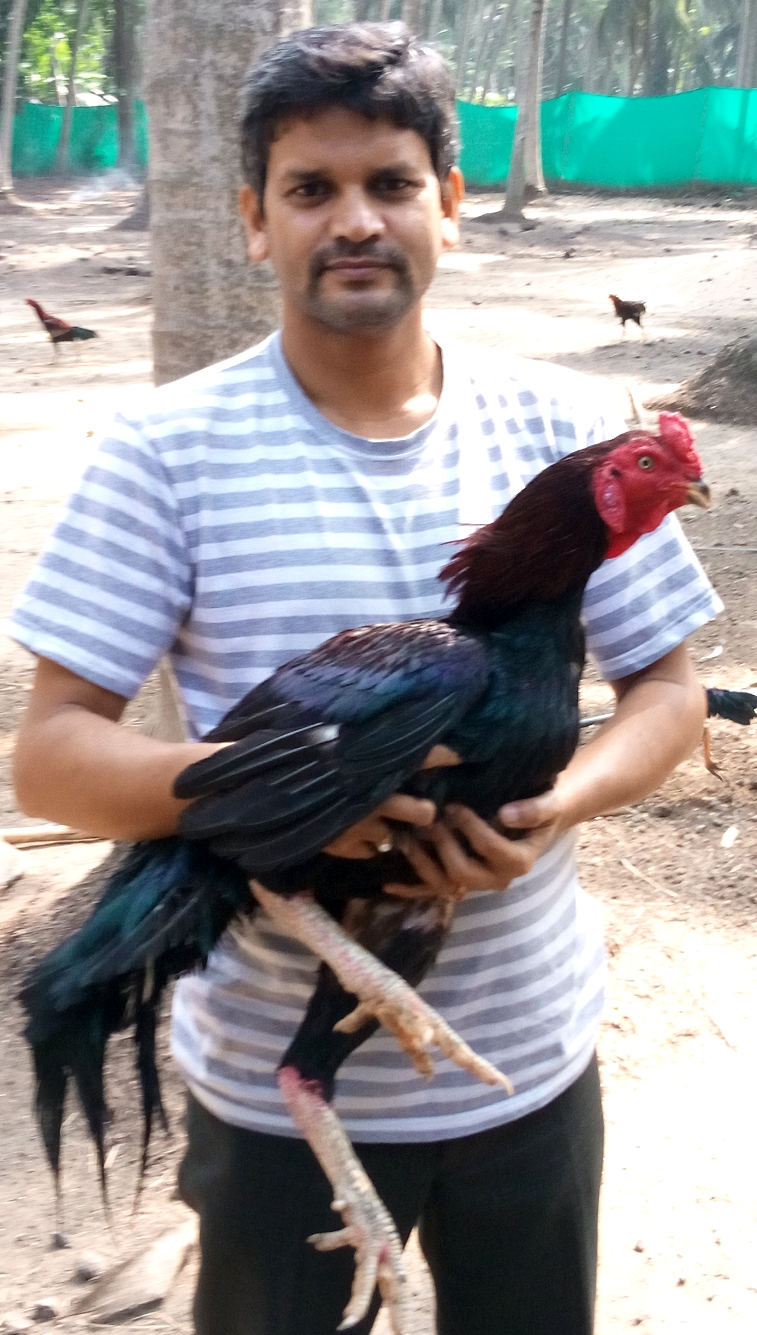 పచ్చకాకి అని పిలిచే పందెం కోడి